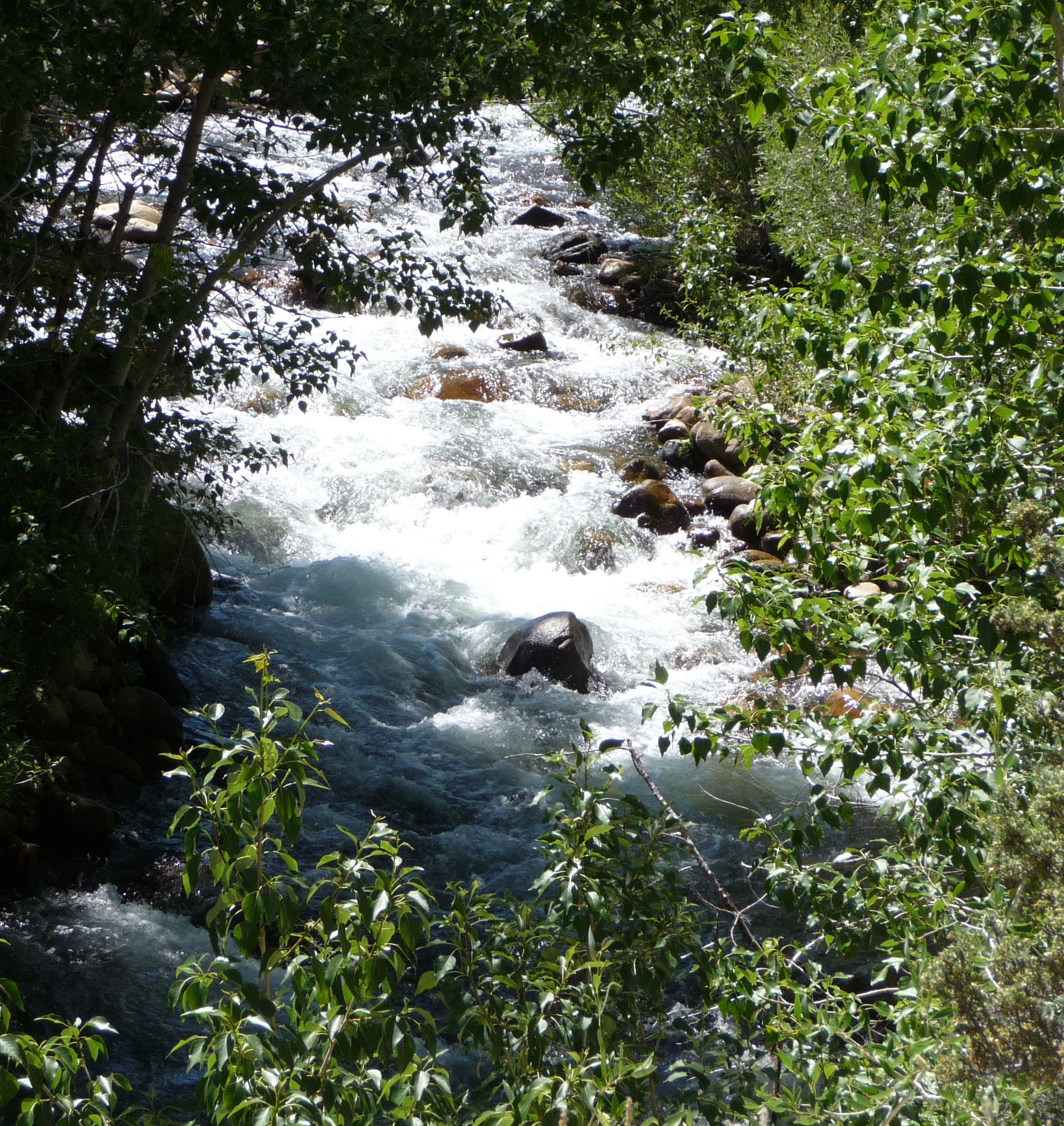 Lee Vining Creek, Mono County, California. The rapids are in the lowest part of the creek, near the shore of Mono Lake.